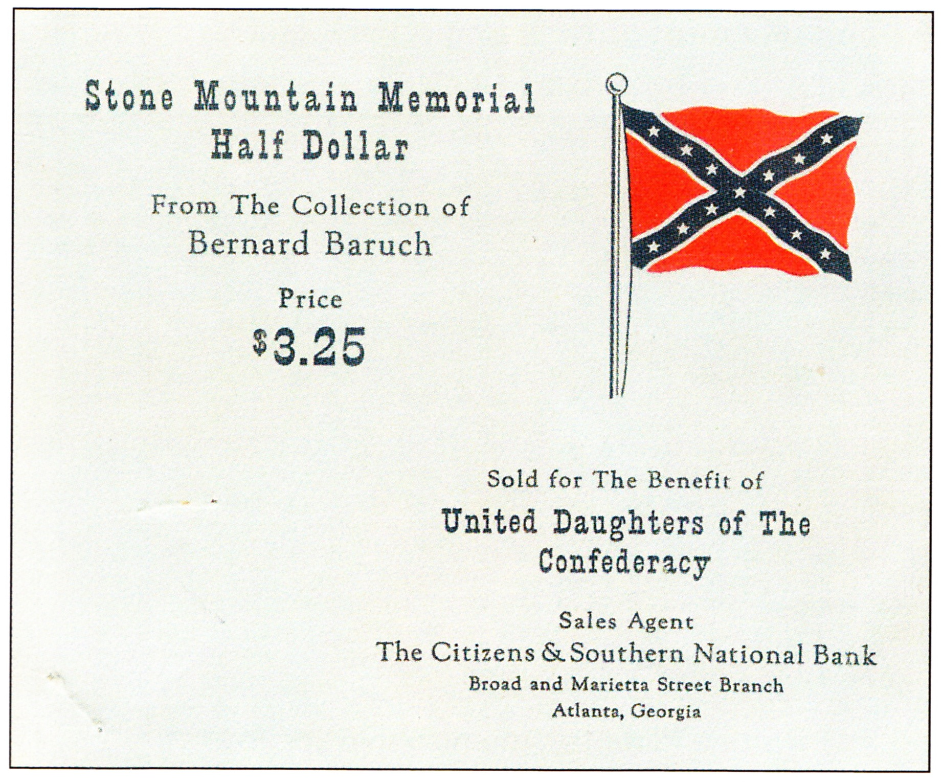 Card attached to Stone Mountain Memorial half dollars